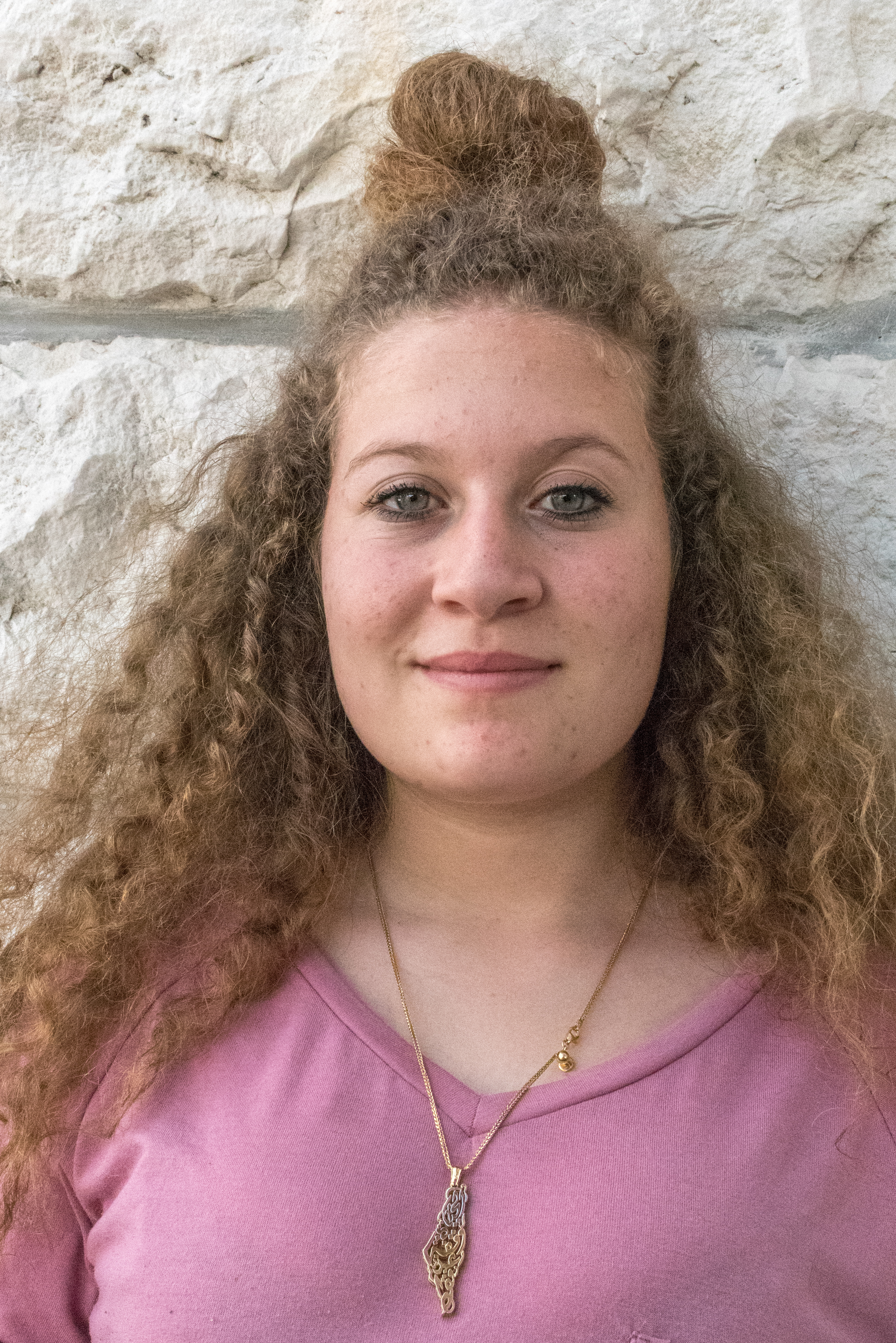 Portrait of Ahed Tamimi